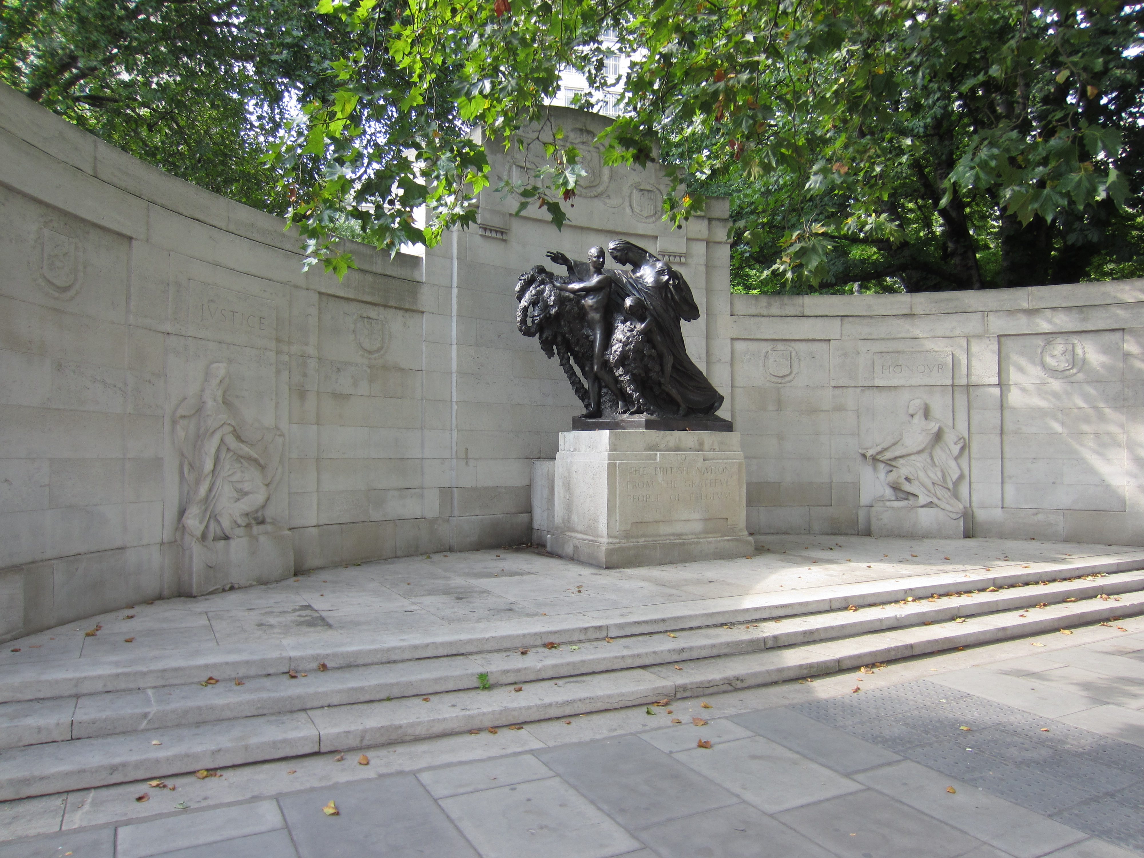 London, United Kingdom (August 2014)